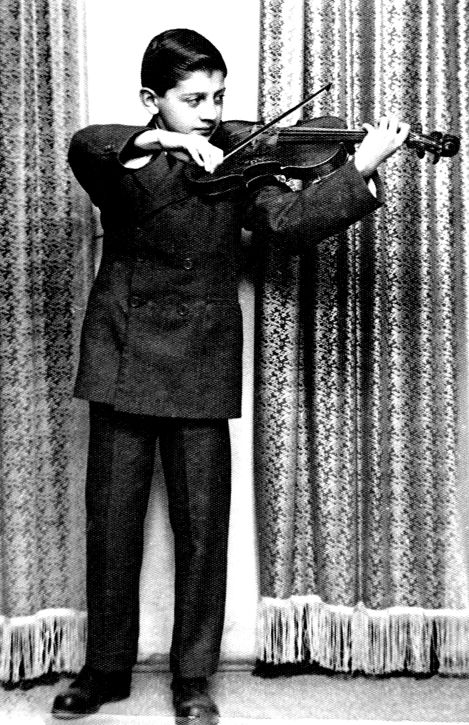 The Hungarian violinist Licco Amar (1891–1959) as a child around 1900